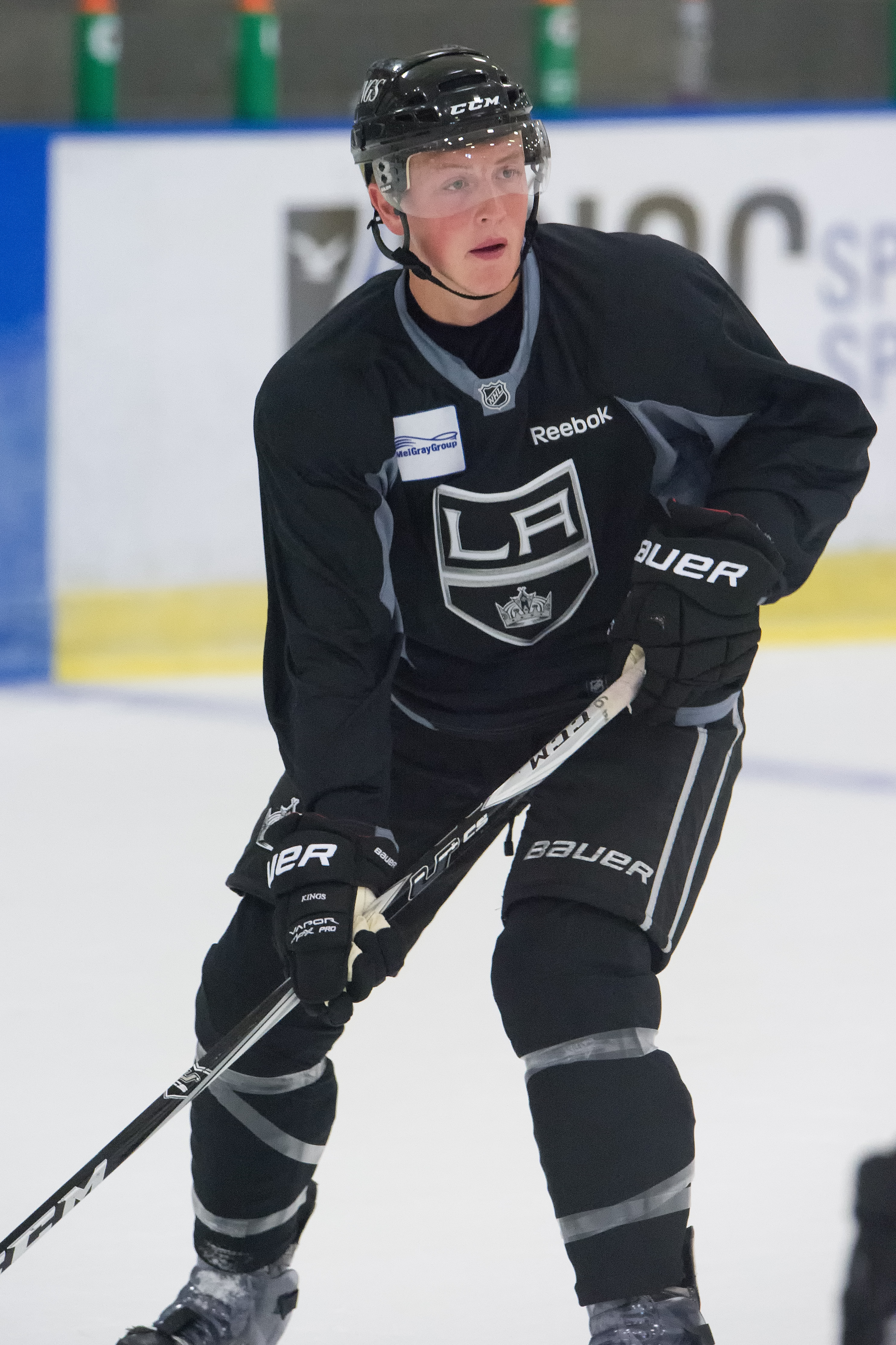 LA Kings Development Camp